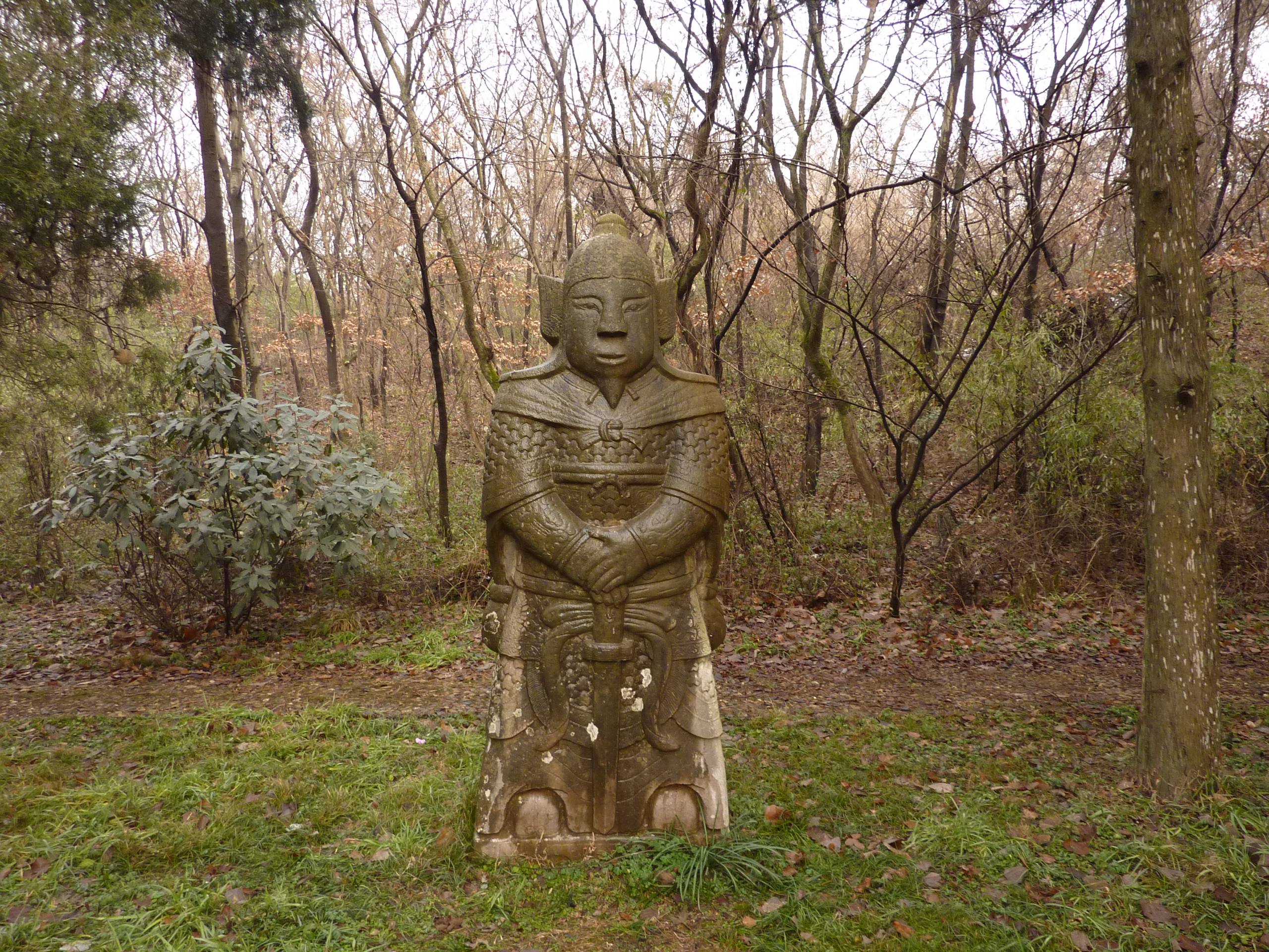 The shendao (spirit way) at the Tomb of the Sultan of Brunei in Nanjing. Stone horses, rams, lions, warriors and officials.